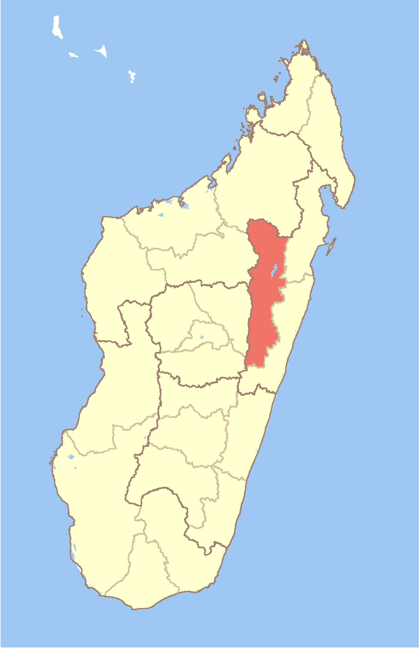 Map of Madagascar with Alaotra Mangoro Region highlighted